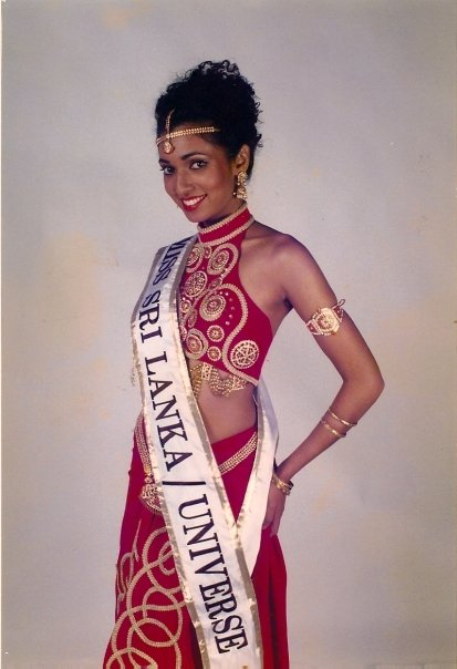 Shivanthini Dharmasiri Burr